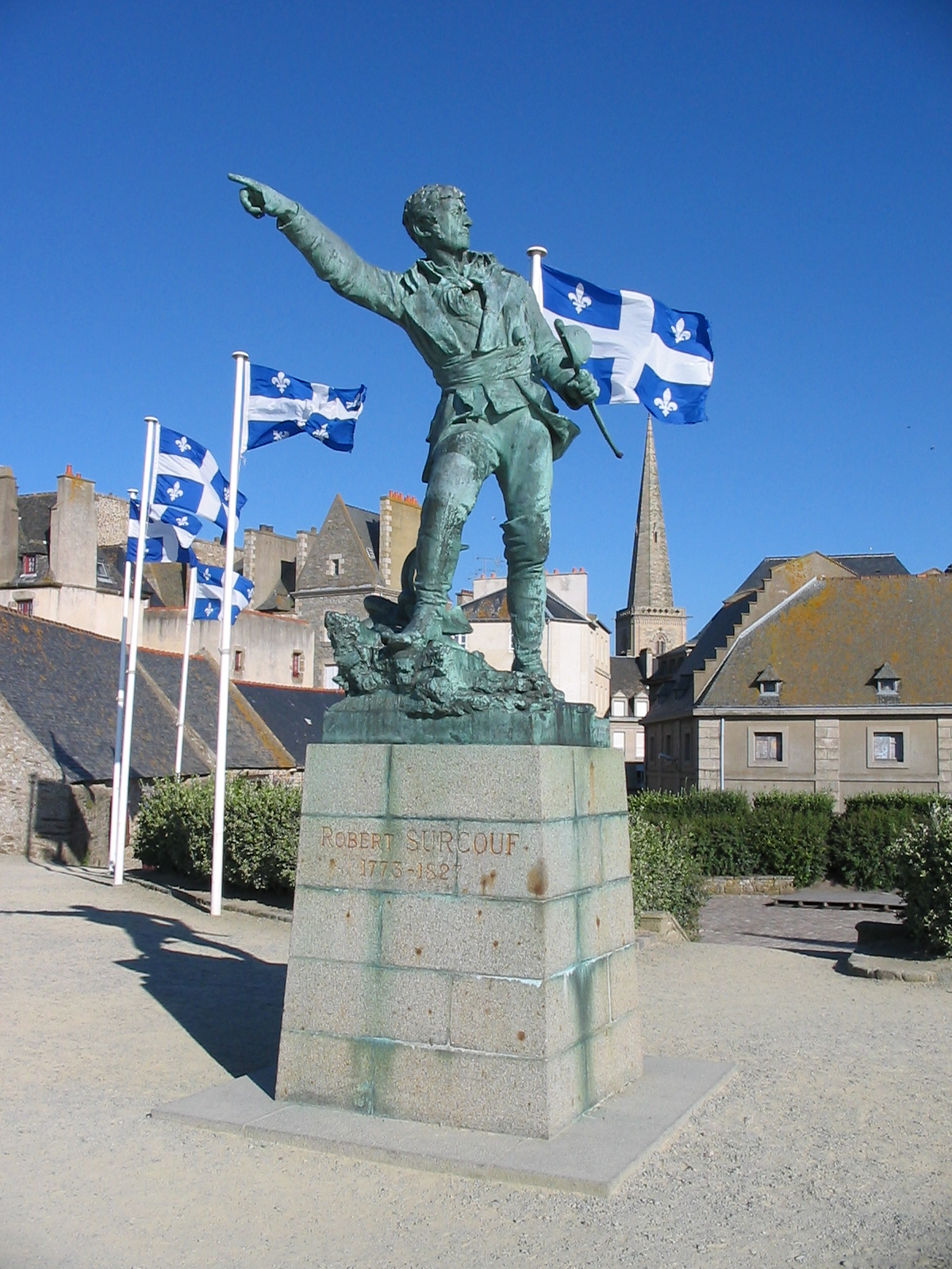 Robert Surcouf (12 December 1773–8 July 1827) was a famous French corsair. During his legendary career, he captured 47 ships and was renowned for his gallantry and chivalry, earning the nickname of Roi des Corsaires ("King of Corsairs"). This statue of Robert Surcouf, located in Saint-Malo (France), was created by the sculptor Alfred Caravaniez (born in 1855) in Saint-Nazaire (France).